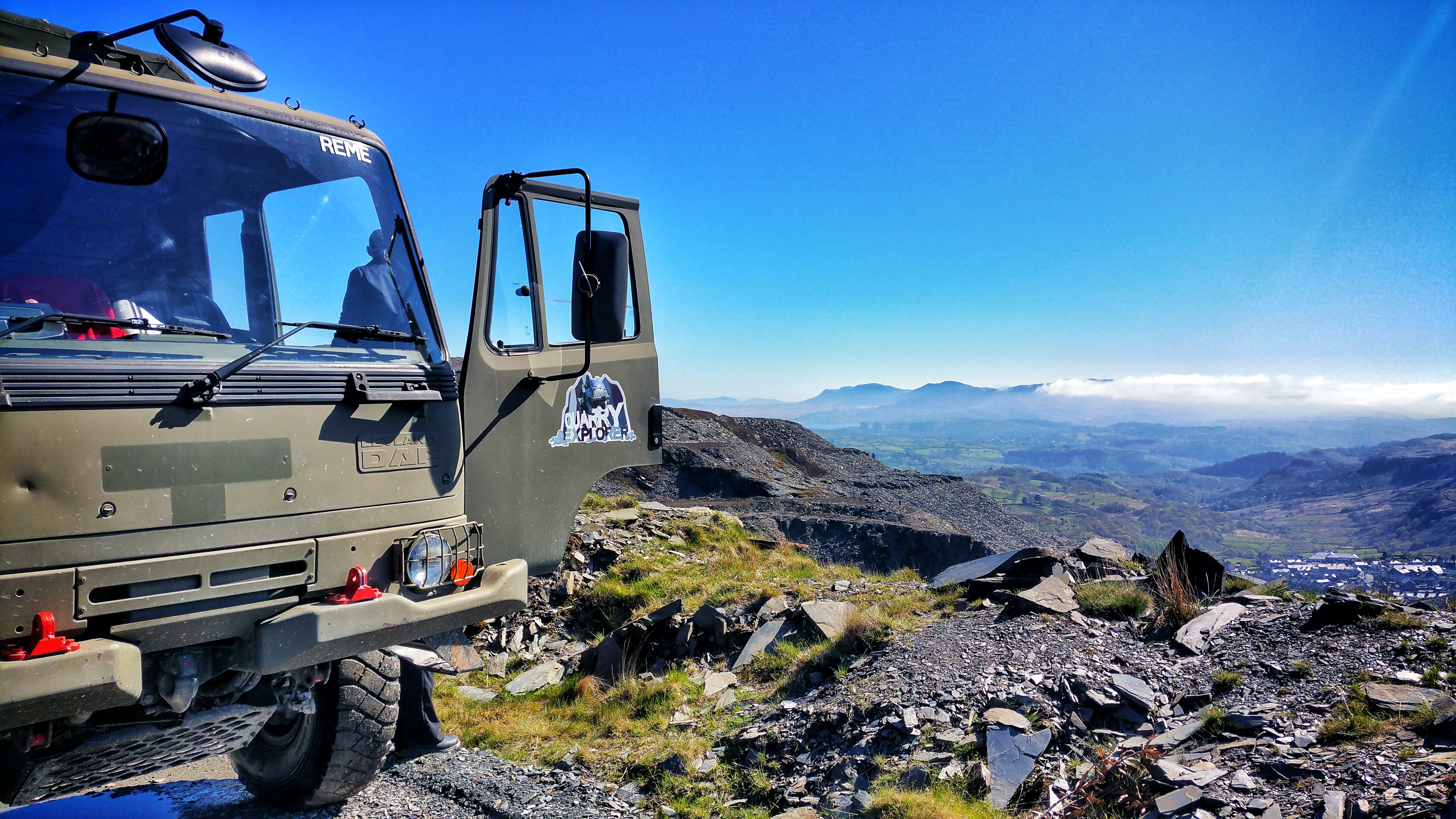 An army truck used to transport visitors on their Quarry Explorer Tour reaches the highest point of the site.